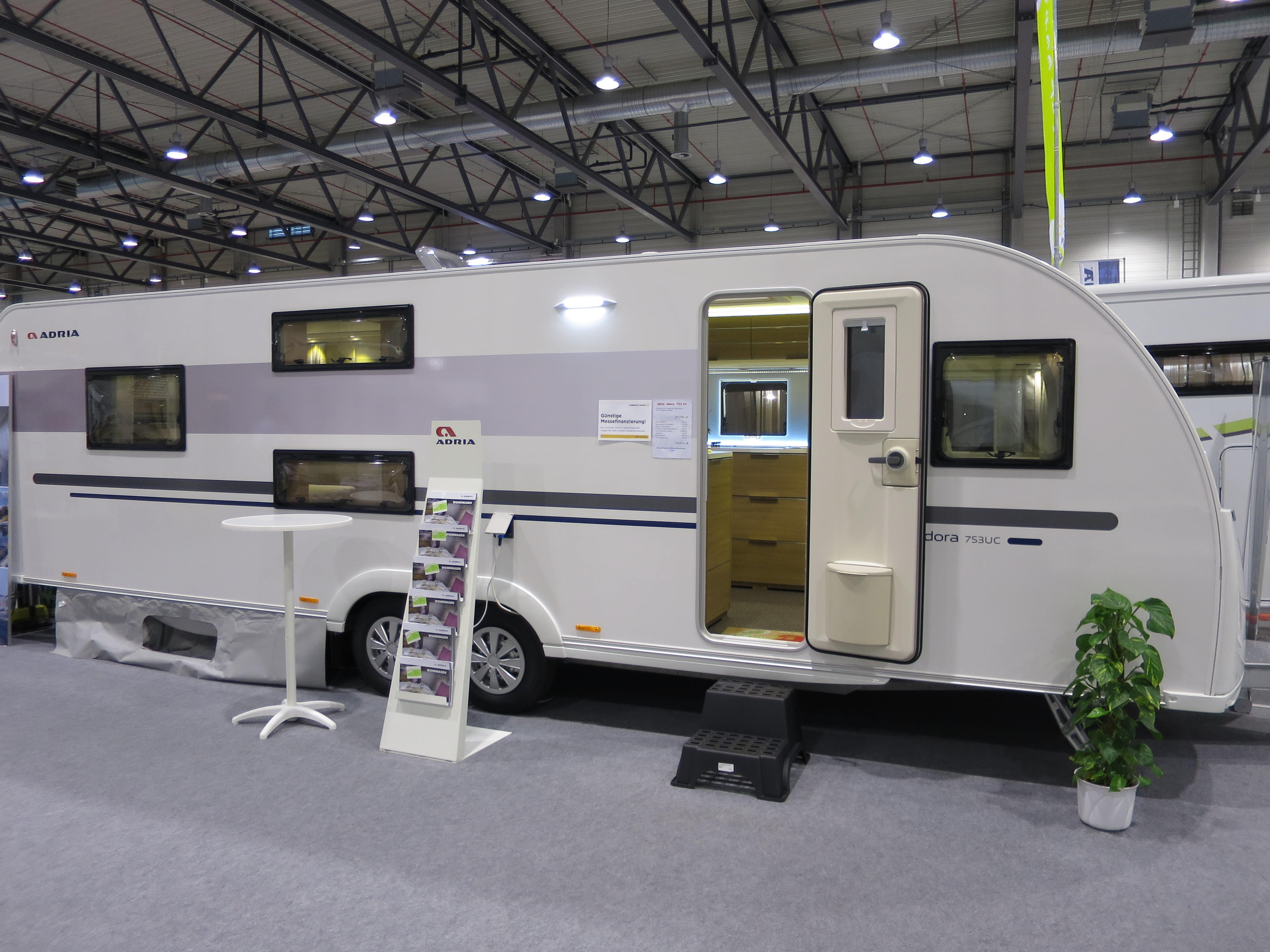 Adria Adora 573 UC.